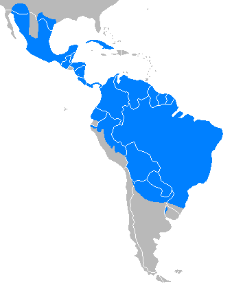 Distribution of Tayassu tajacu